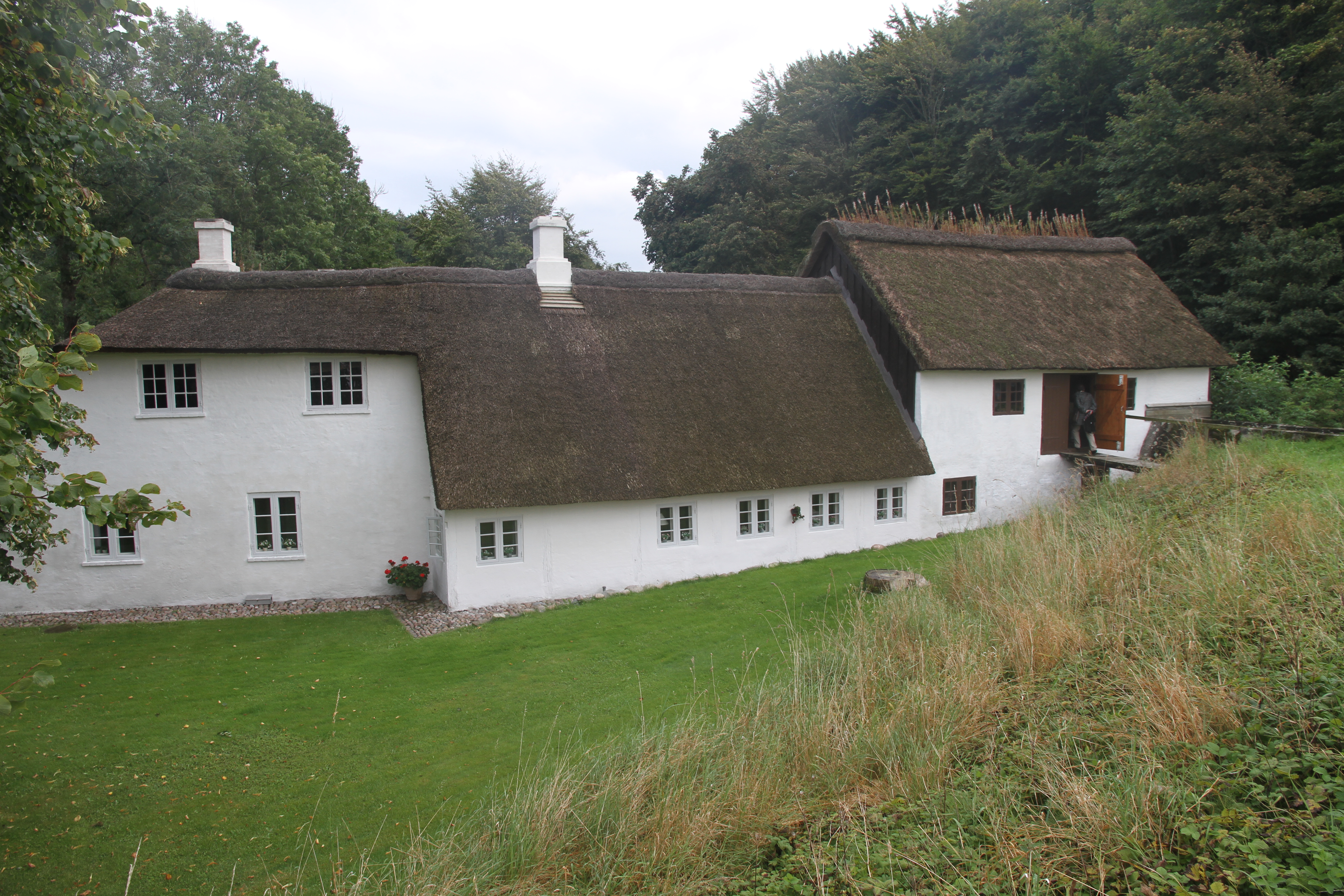 Pictures taken during the tims congress september 2011 Hjerritsdal watermill